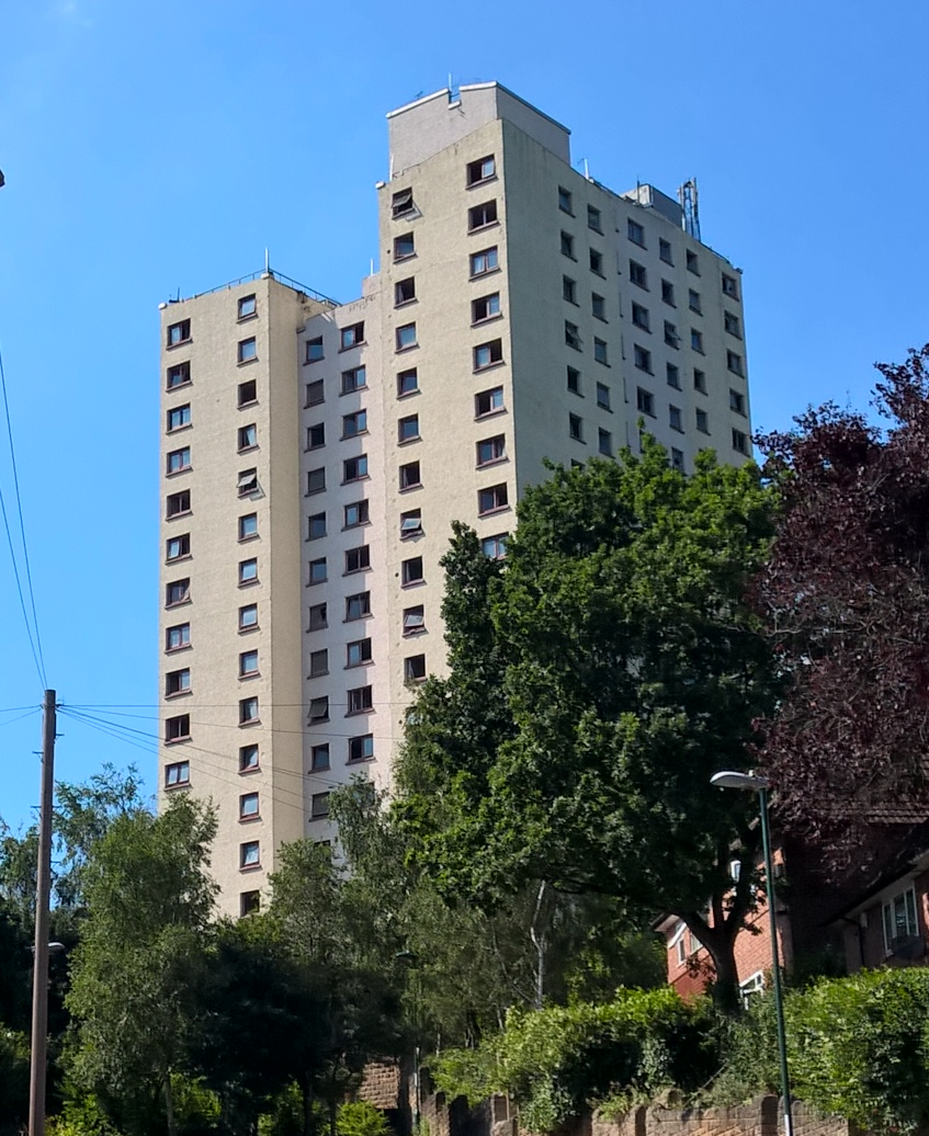 Burrows Court tower block stands sentinel